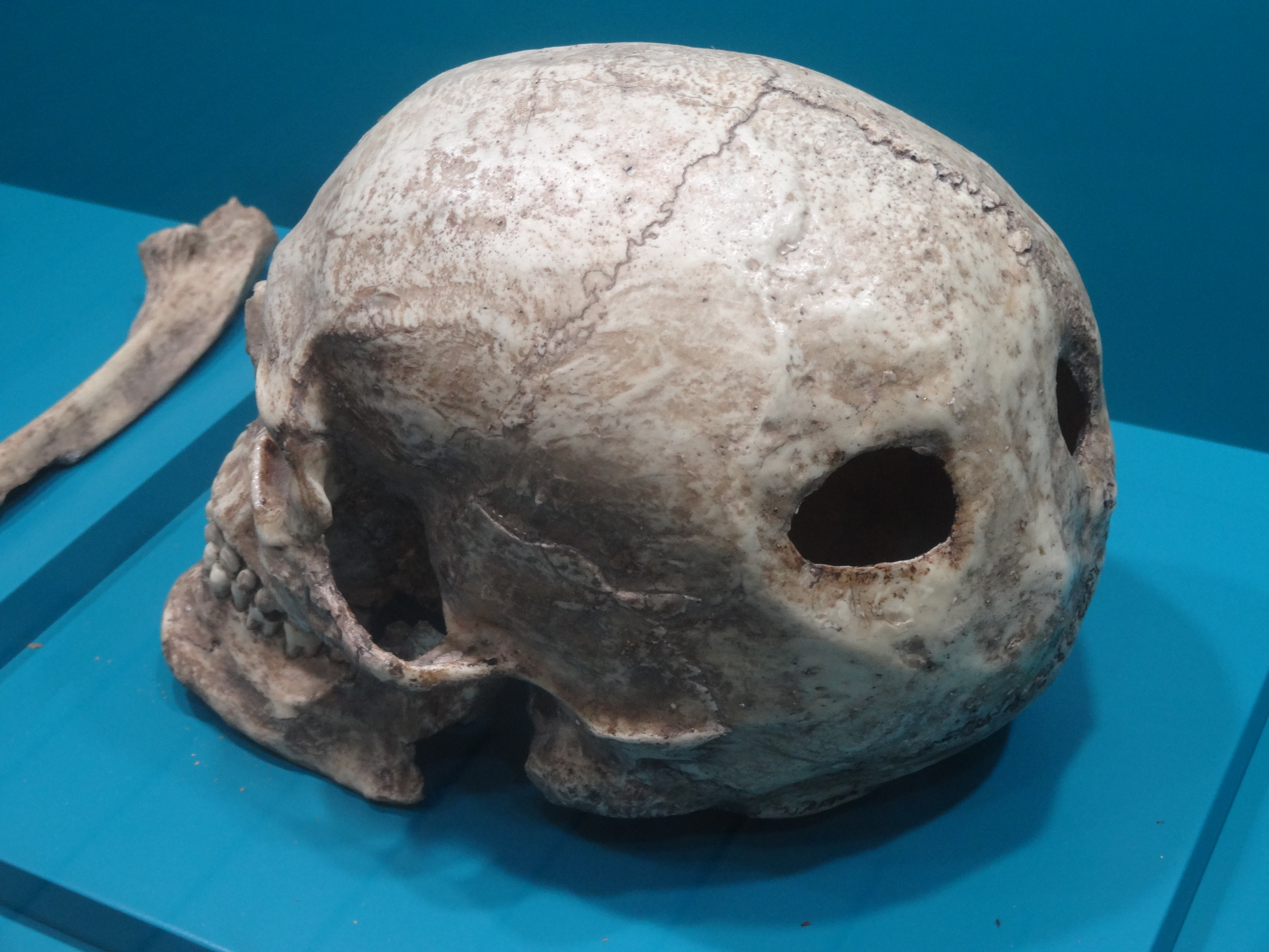 Archaeological site of the Gavà neolithic mines (Parc Arqueològic Mines de Gavà).